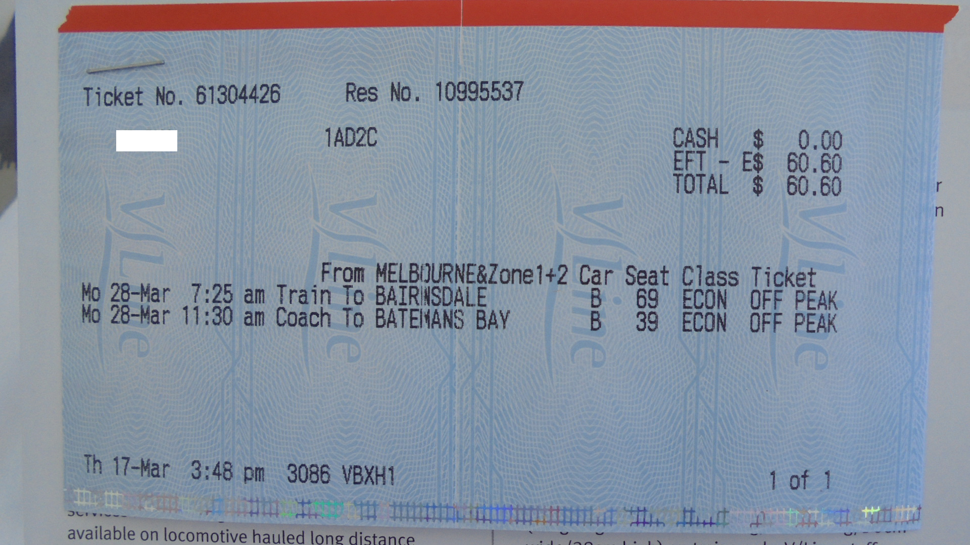 V/line Reserved Seating Ticket